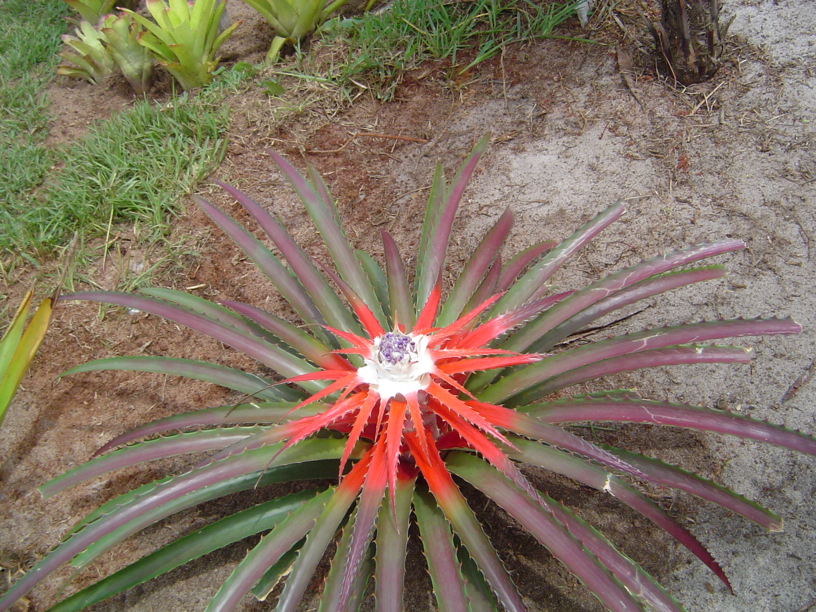 Bromelia balansae, Heart Of Flame